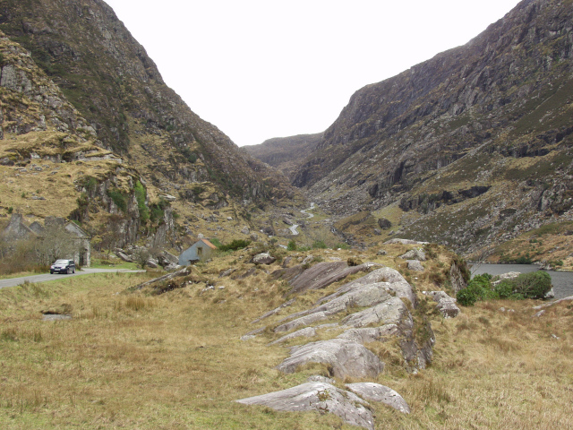 Gap of Dunloe. As seen from the North